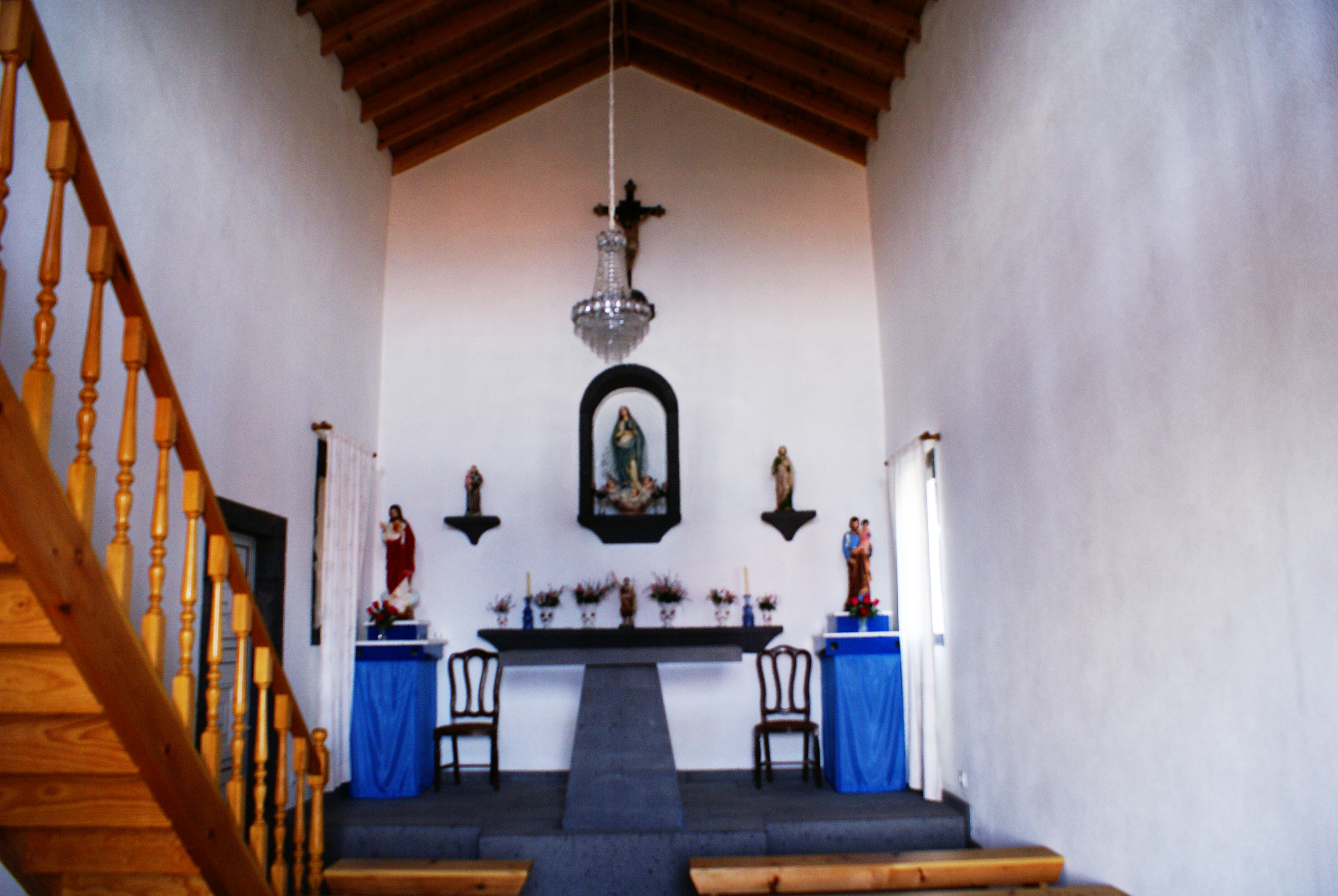 Interior of the Chapel of Rainha do Mundo, Largo dos Arcos de Santa Luzia, São Roque do Pico, Pico (Azores), Portugal